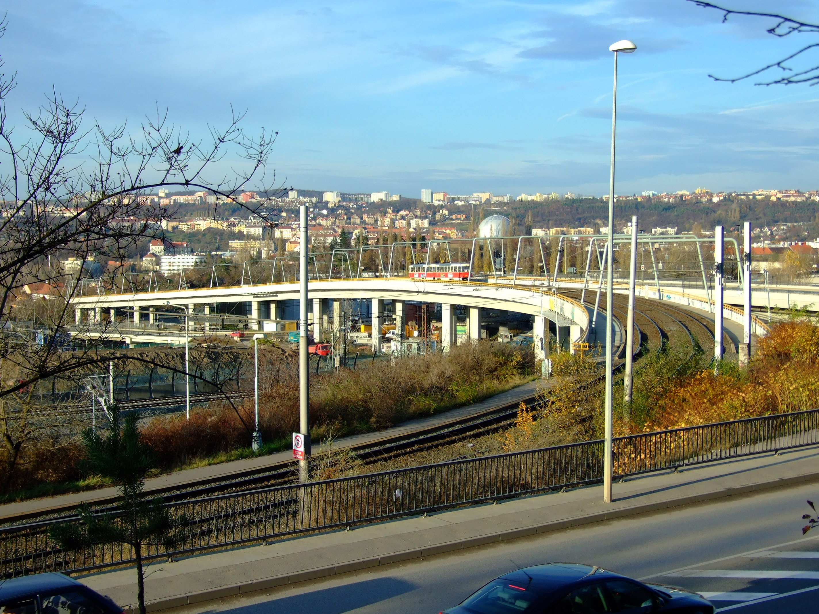 Tram track Ohrada-Palmovka, Prauge, CZhelp